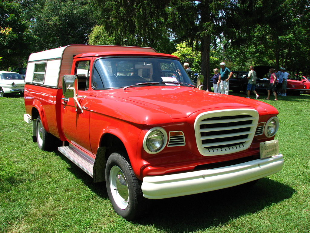 1962 Studebaker Champ Pickup. At the Studebaker Drivers Club regional show in Chillicothe, Ohio.